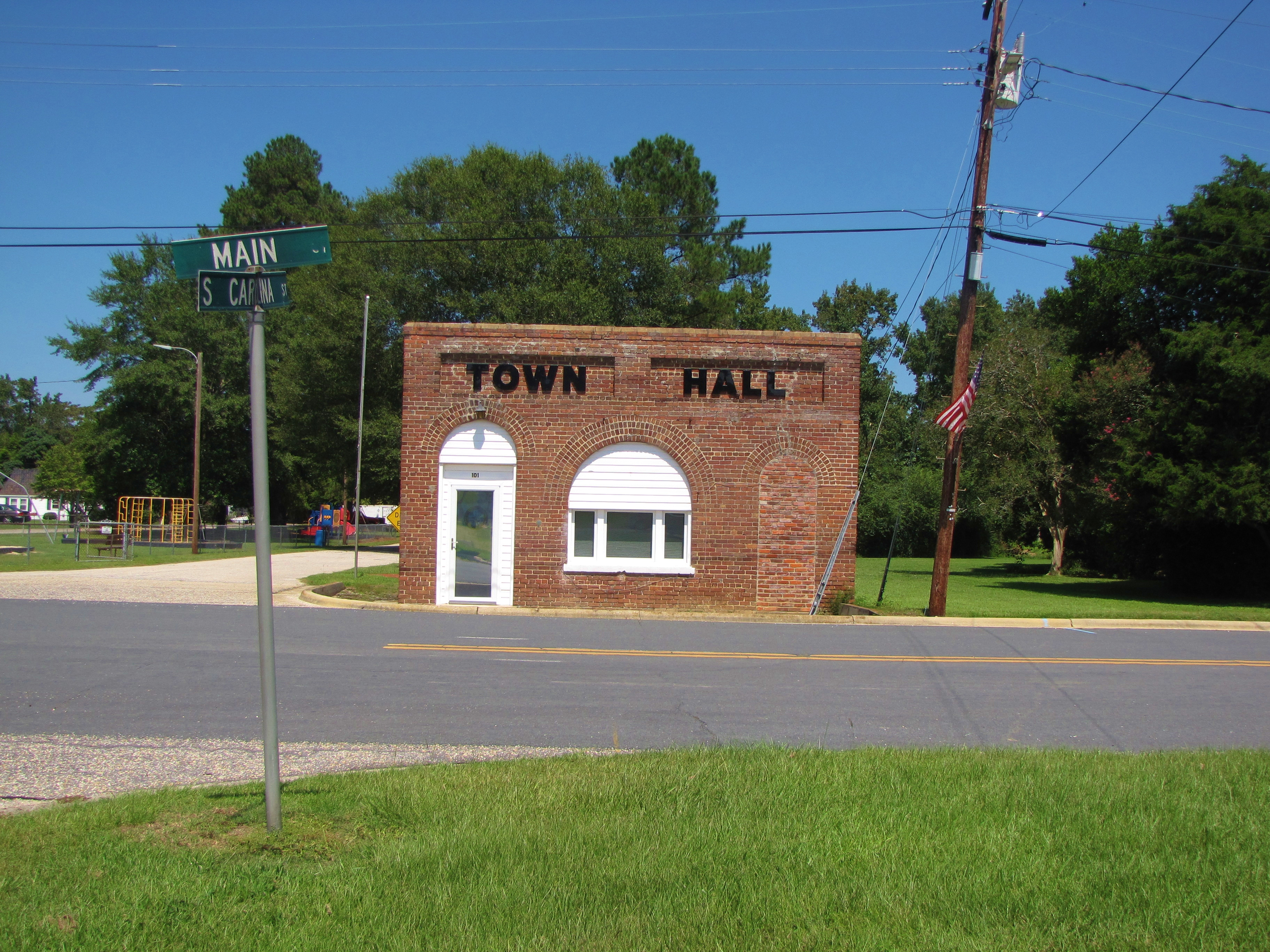 Proctorville Town Hall is on Main Street in Proctorville, North Carolina in Robeson County.